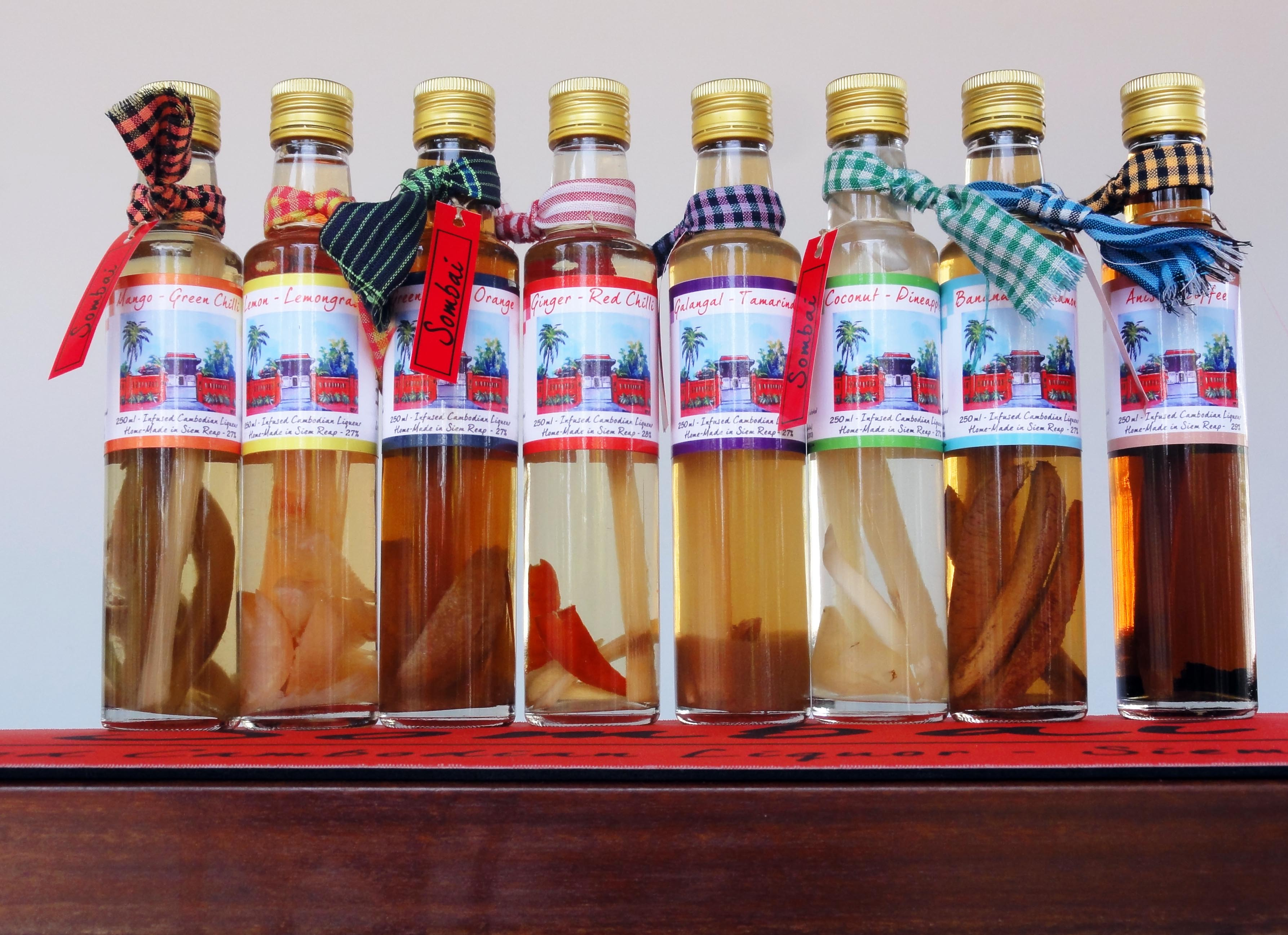 Bottles of Sombai Infused Cambodian Liqueur, 25cl with label